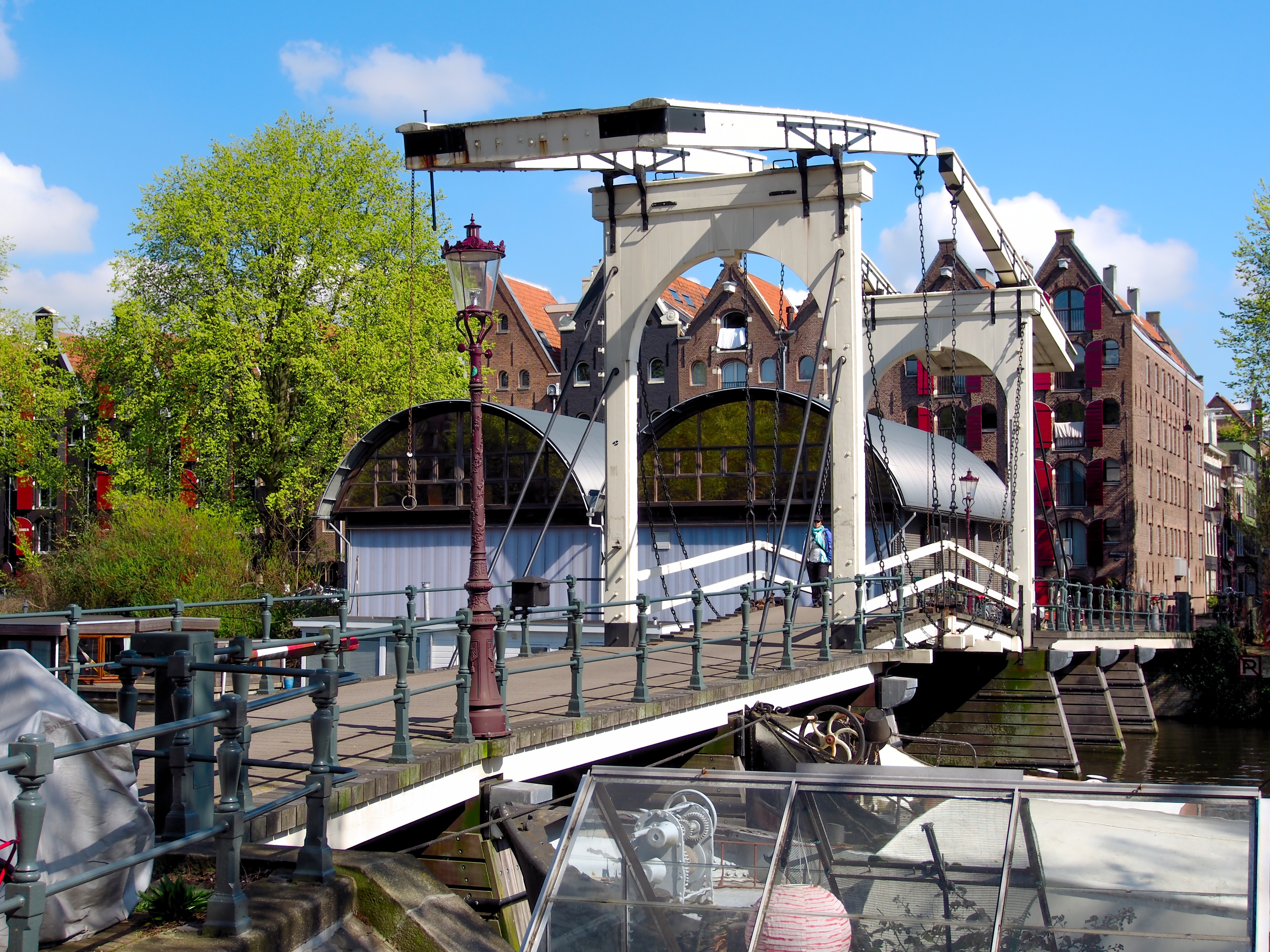 Photographed at Amsterdam, The Netherlands.